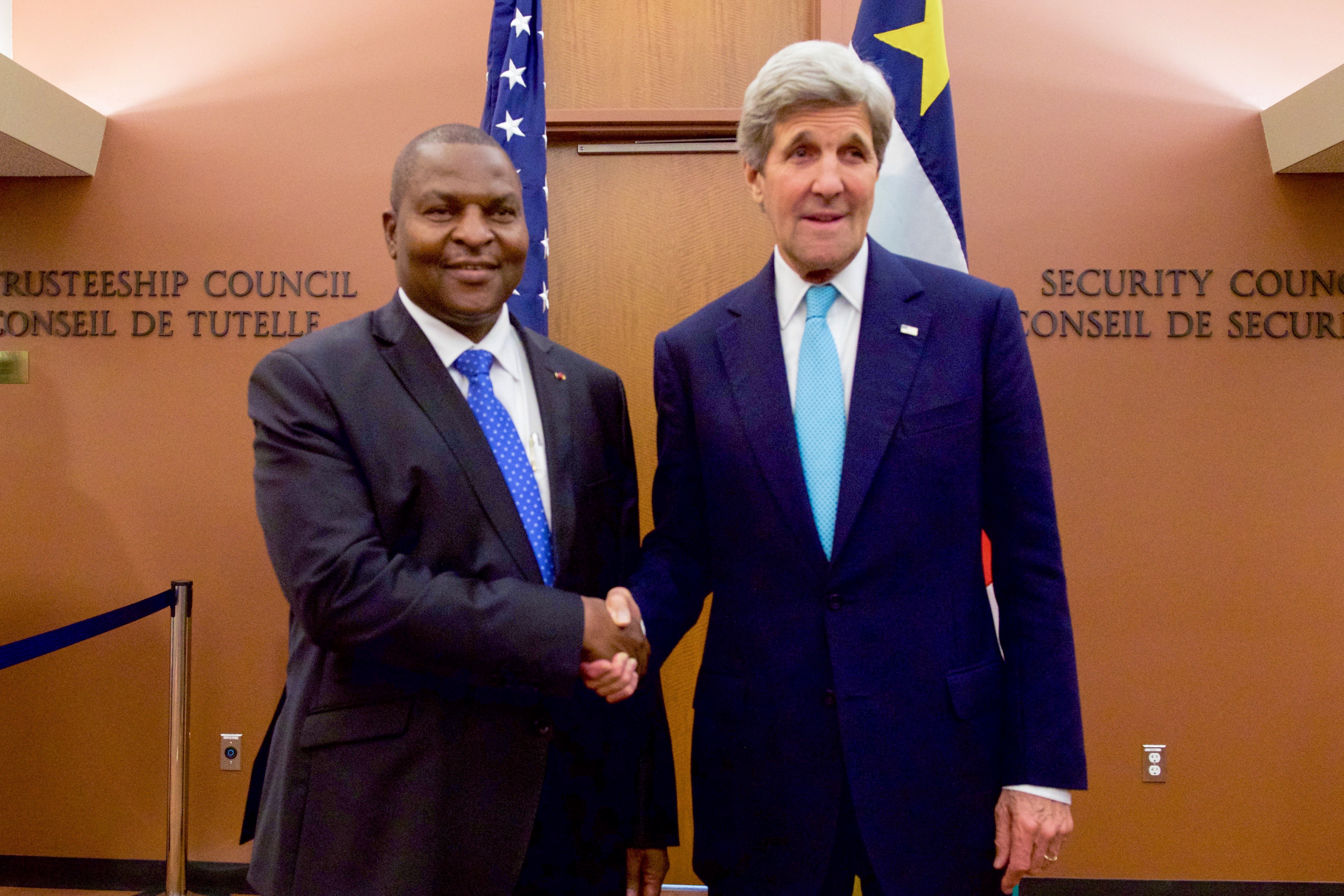 U.S. Secretary of State John Kerry shakes hands with Central African Republic (CAR) President Faustin-Archange Touadéra before their brief bilateral meeting after both officials signed the COP21 Climate Change Agreement on Earth Day, April 22, 2016, at the United Nations Headquarters in New York, N.Y. [State Department photo/ Public Domain] [State Department photo/ Public Domain]